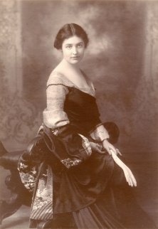 Elizabeth Okie Paxton, 1877-1971